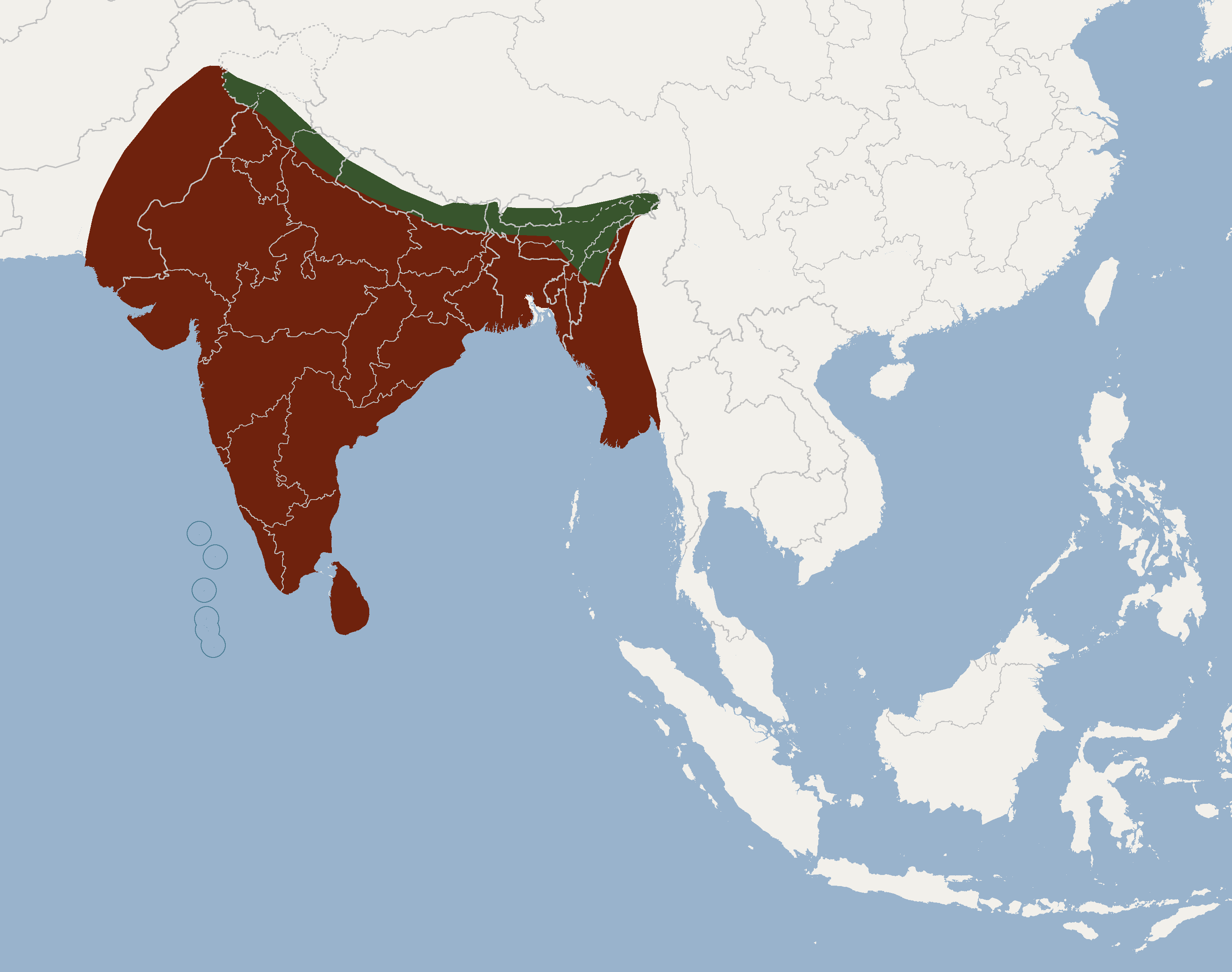 According to Francis, 2008, Menon, 2014. Subspecies range: P.g.giganteus in brown, P.g.leucocephalus in green, P.g.ariel in blue. P.g.giganteus P.g.leucocephalus P.g.ariel